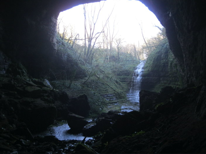 View of the Waterfall view from gouffre de Réveillon in Lot department, France.